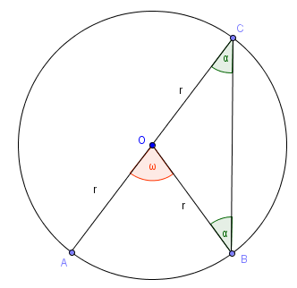 Inscribed angle case 1